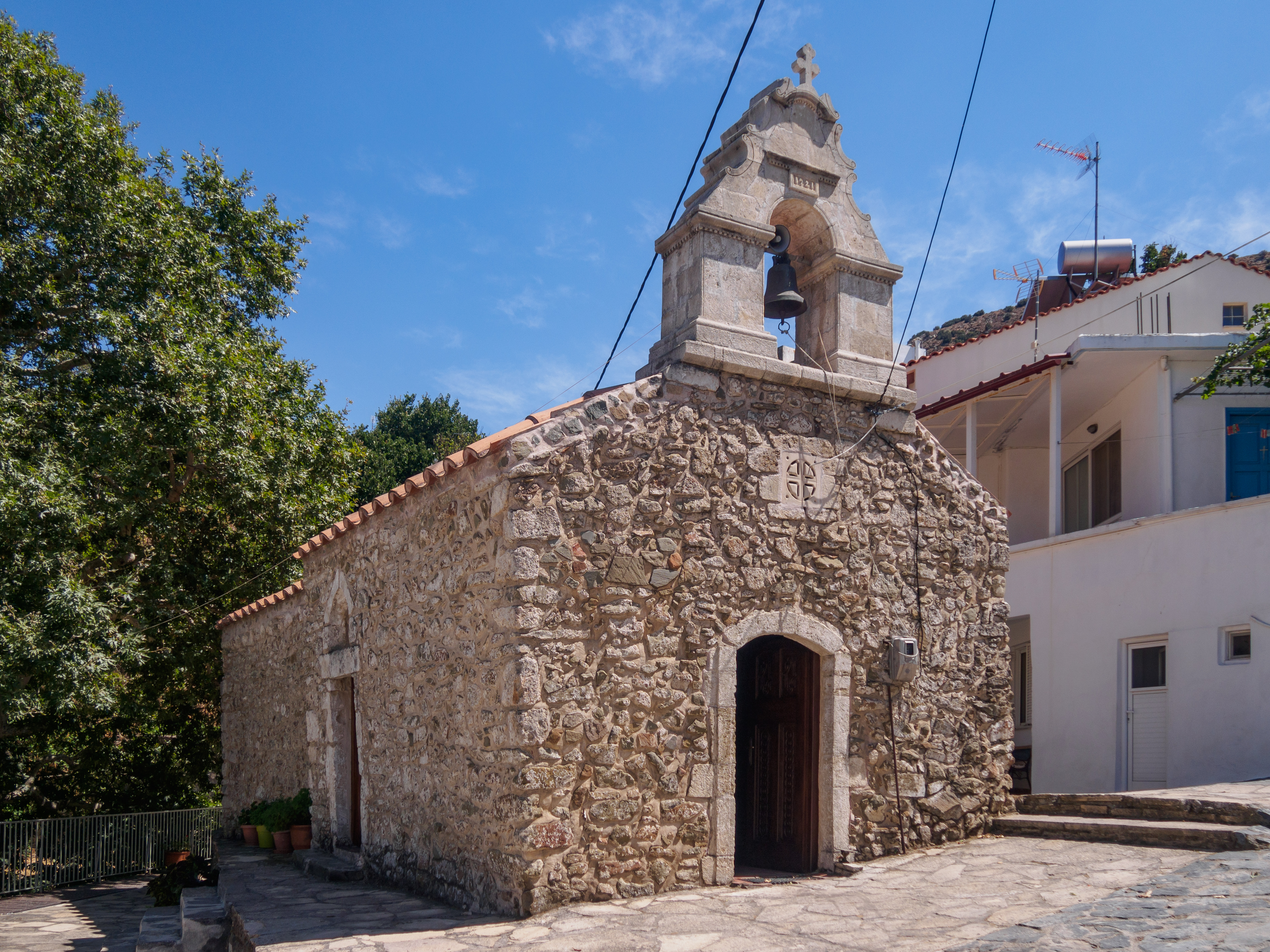 The church of Saint Paraskevi at Melambes. The church was built in the 14th century and the bell gable was added in 1921.